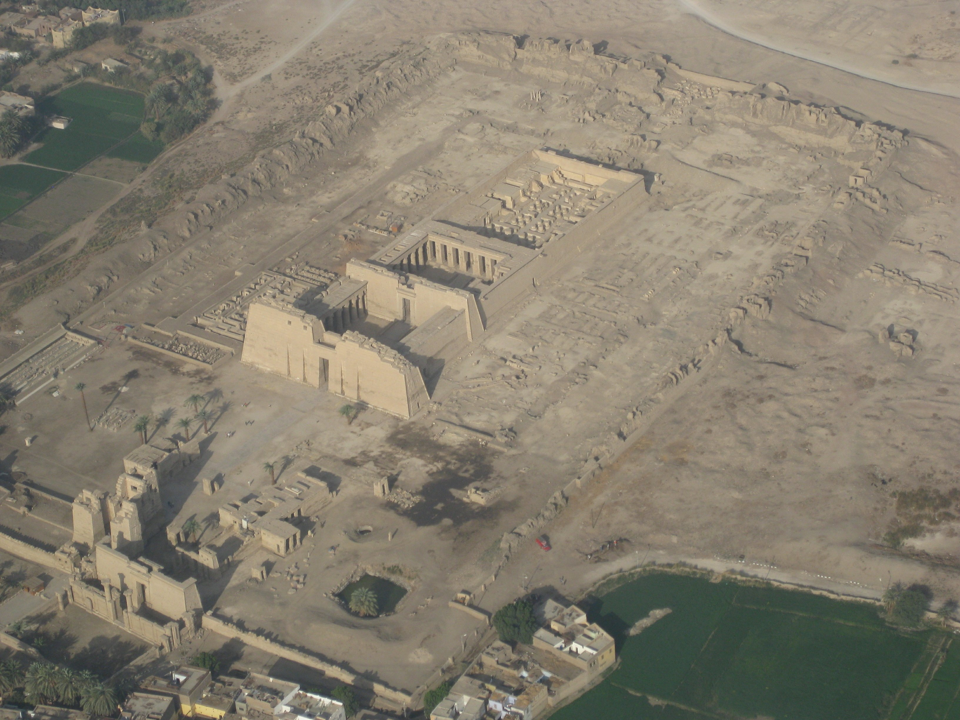 Temple of Rameses III - Medinet Habu